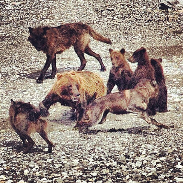 Wolves attack a grizzly mother & cubs in Alaska. She escapes